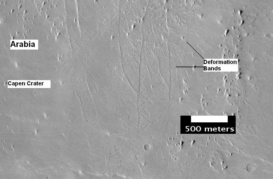 Deformation bands, as seen by hirise in Capen Crater, Arabia. Coordinates are 6.6 N and 14.1 E